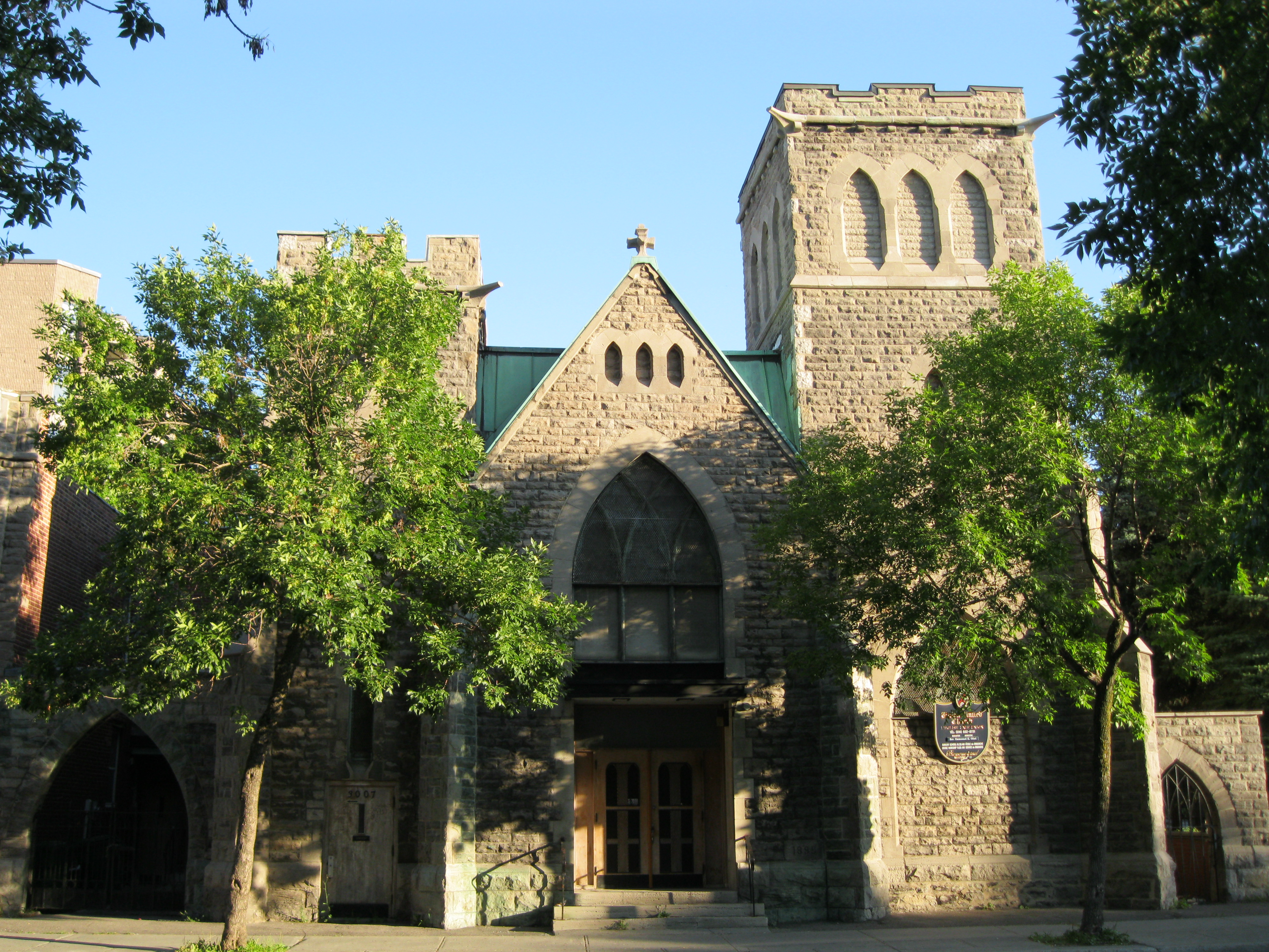 Union United Church is a congregation with open hearts and hands in the heart of downtown Montreal, 3007 Delisle Street, Montréal, Quebec, Canada